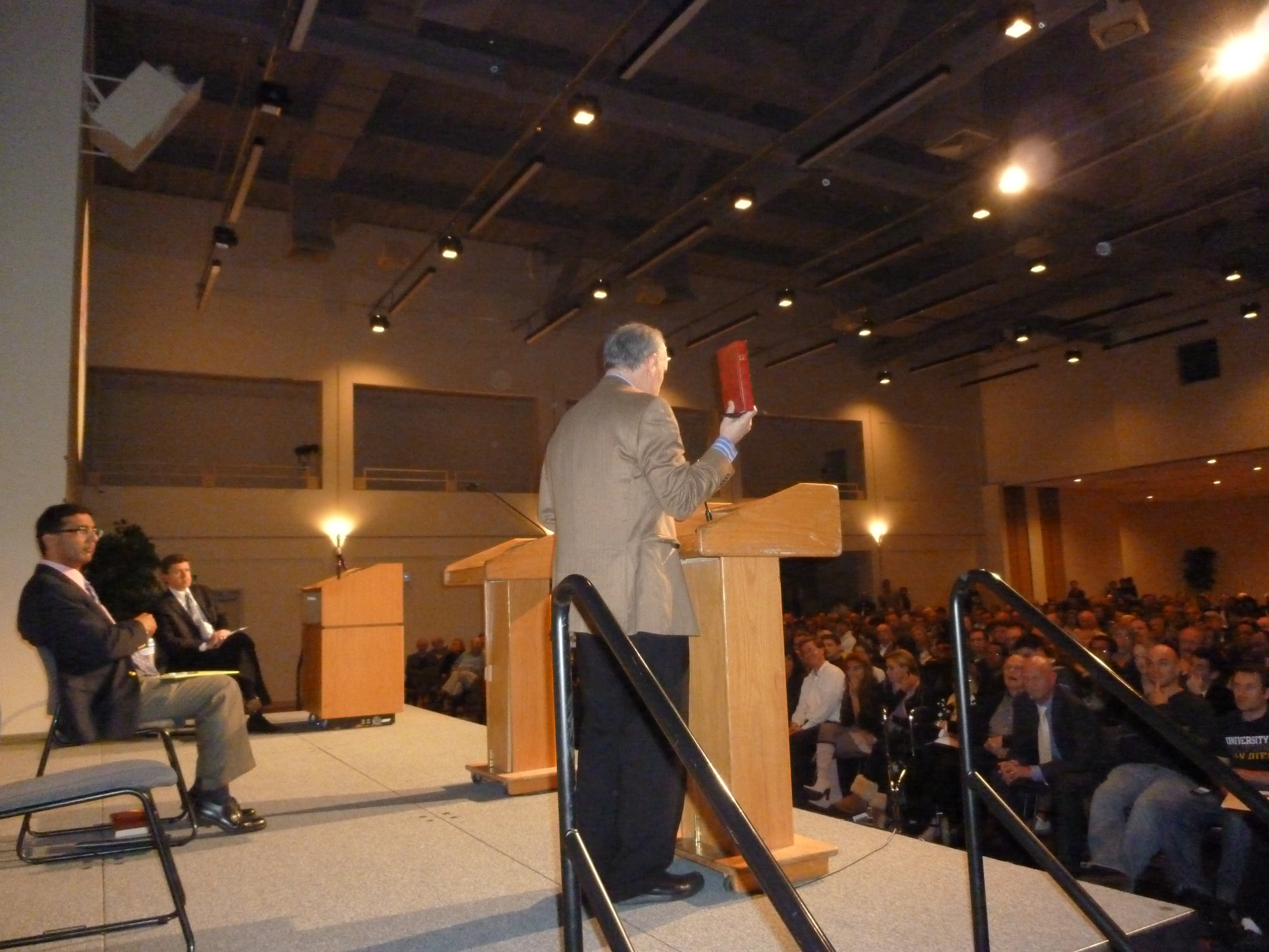 Dan Barker (right), Bible in hand, debating Dinesh D'Souza (left) at UCSD